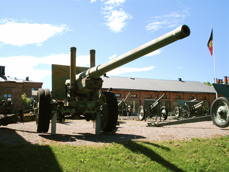 Soviet 122 mm M1931 gun, displayed in Hämeenlinna Artillery Museum. This improved version of the M1927 gun has rubber wheels better suitable for motor-towing. Photo taken on June 18, 2006. Source: Photo by me, User:Balcer.